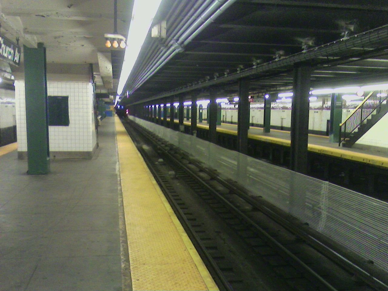 The northbound platform at the Kensington-Church Avenue subway station, during elevator installation. Taken in August 2006.